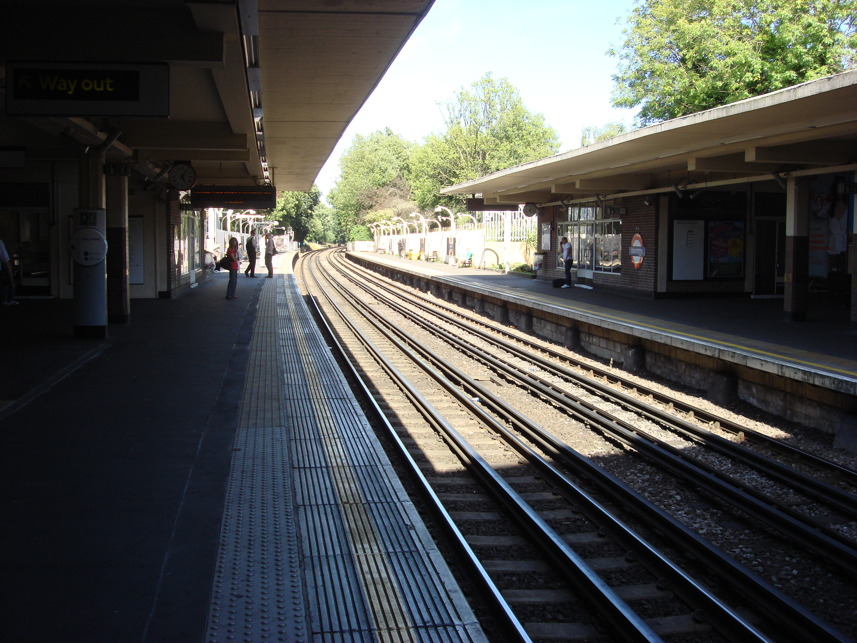 Eastcote tube station, Eastbound platform looking east